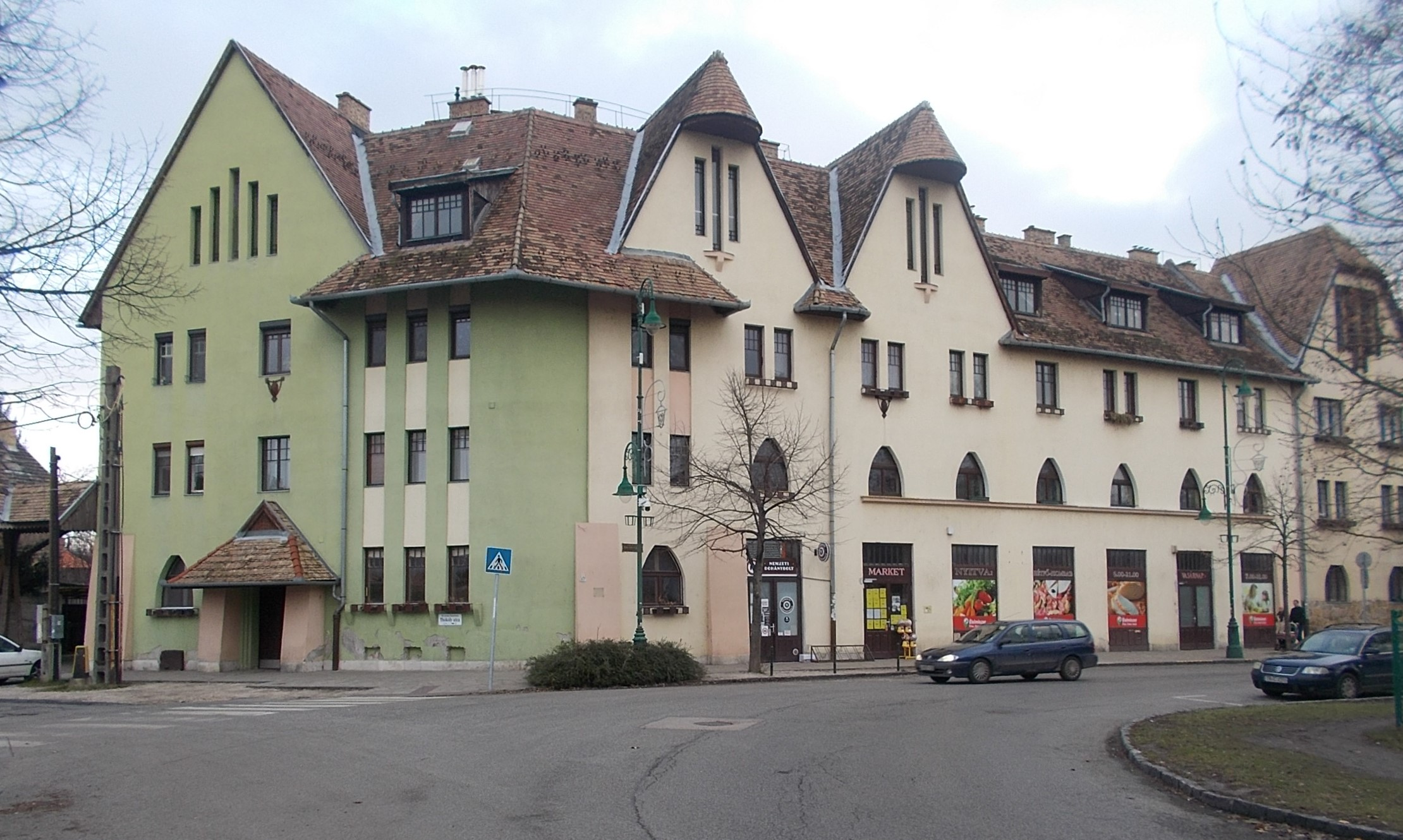 Listed corner house, planned by Zoltán Tornallyay, built in 1914 - 1 Kós Károly tér, Thököly utca corner, Wekerletelep, 19th district of Budapest.